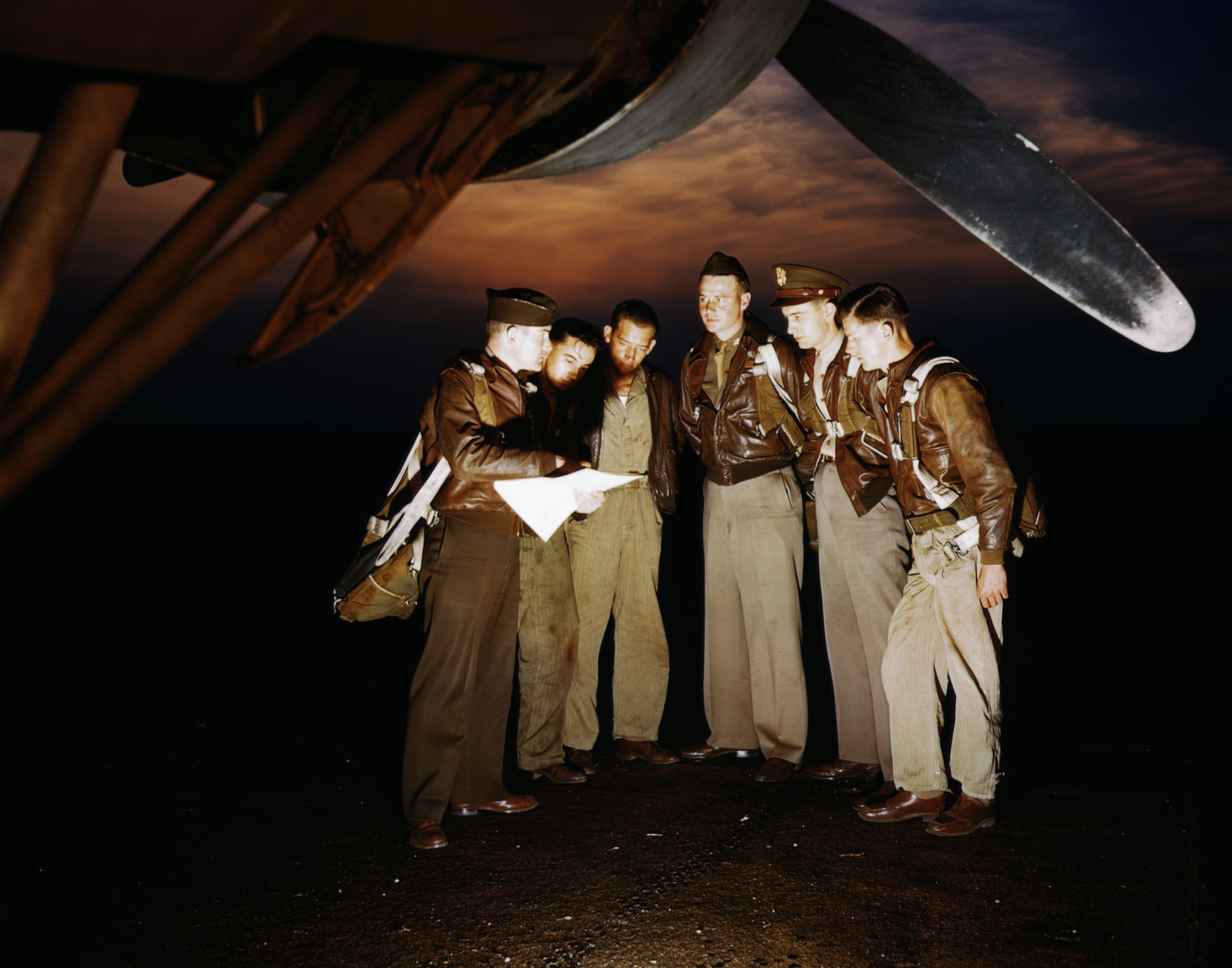 A combat crew receives final instructions just before taking off in a YB-17 bomber from a bombardment squadron base at the field, Langley Field, Va.